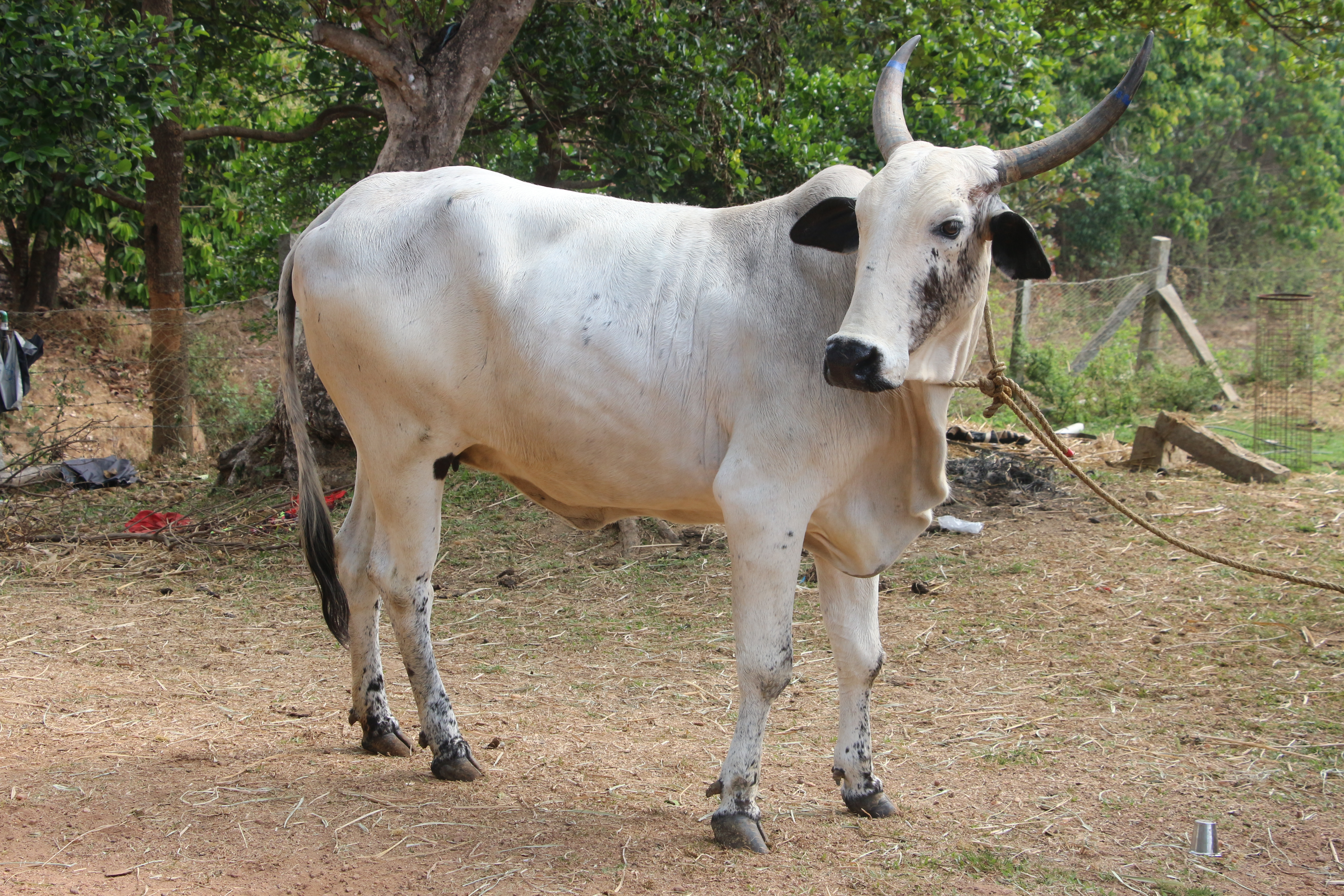 Indian cow breed Deoni ಕನ್ನಡ: ಭಾರತೀಯ ಗೋತಳಿ ದೇವನಿ